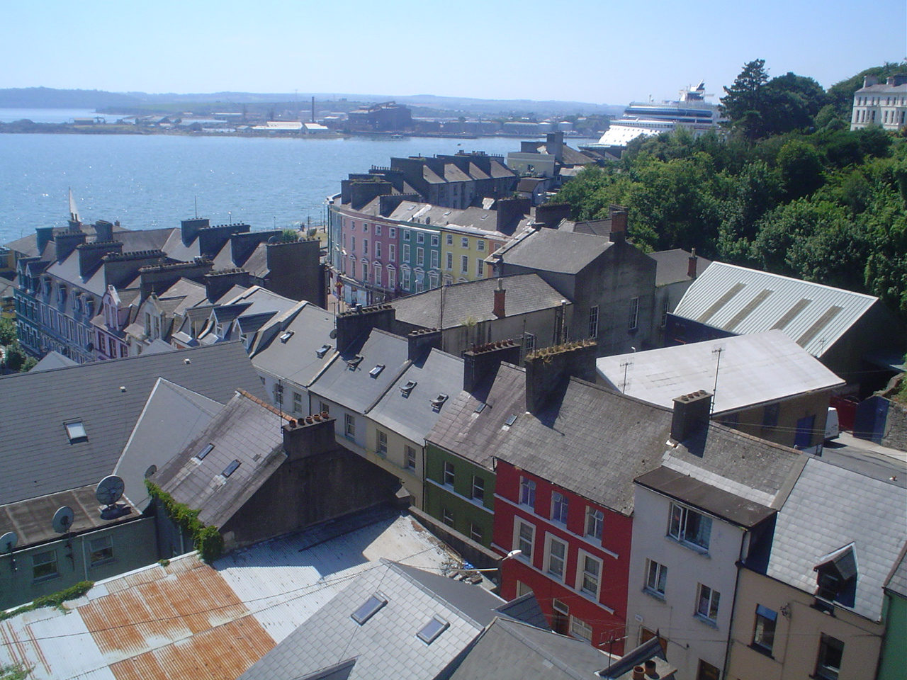 Cobh town landscape